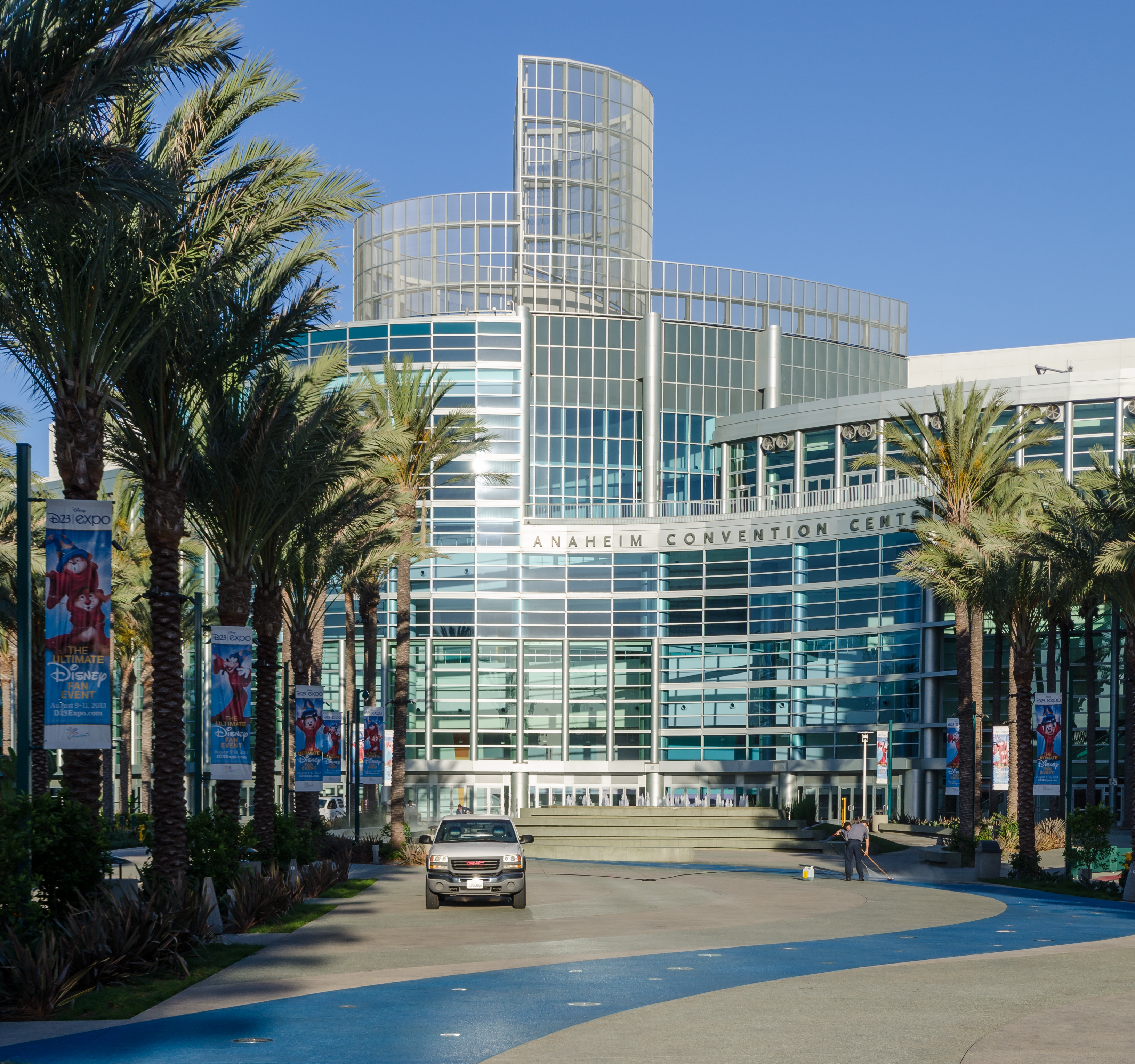 Anaheim Convention Center, back view